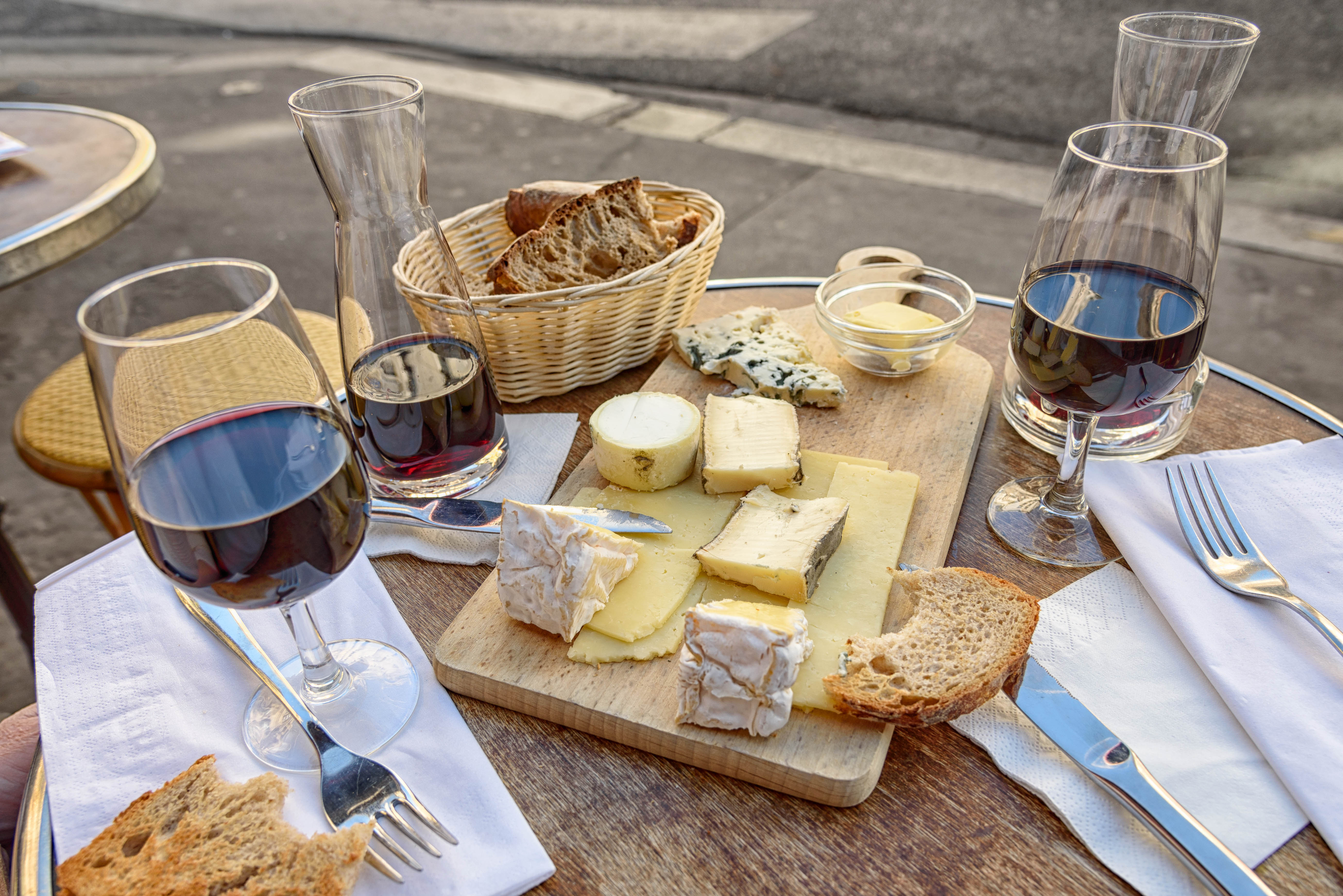 Cheese, wine and bread in Cafe Vavin, 18 Rue Vavin, 75006 Paris.